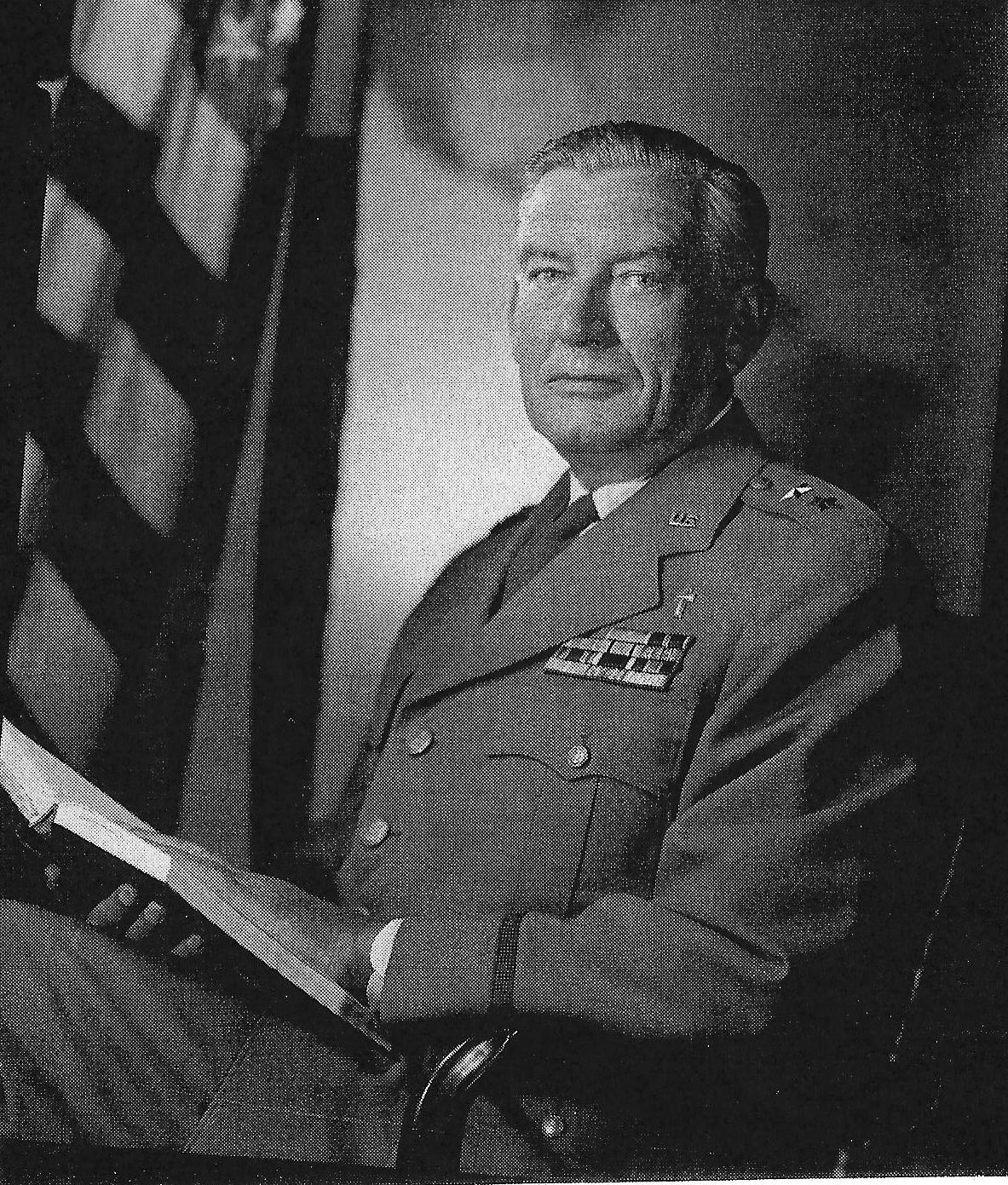 MGEN (Chaplain) T. P. Finnegan. blue uniform, no hat. Original in color. NARA Citation 342-B-12-13-2-KE-13497